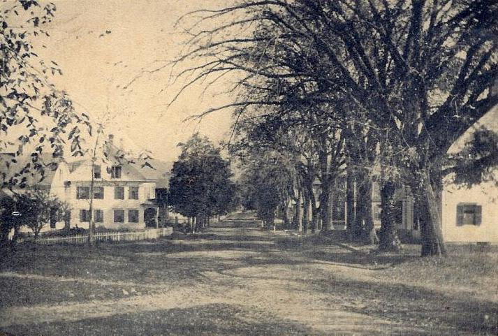 High Street, Cornish, Maine